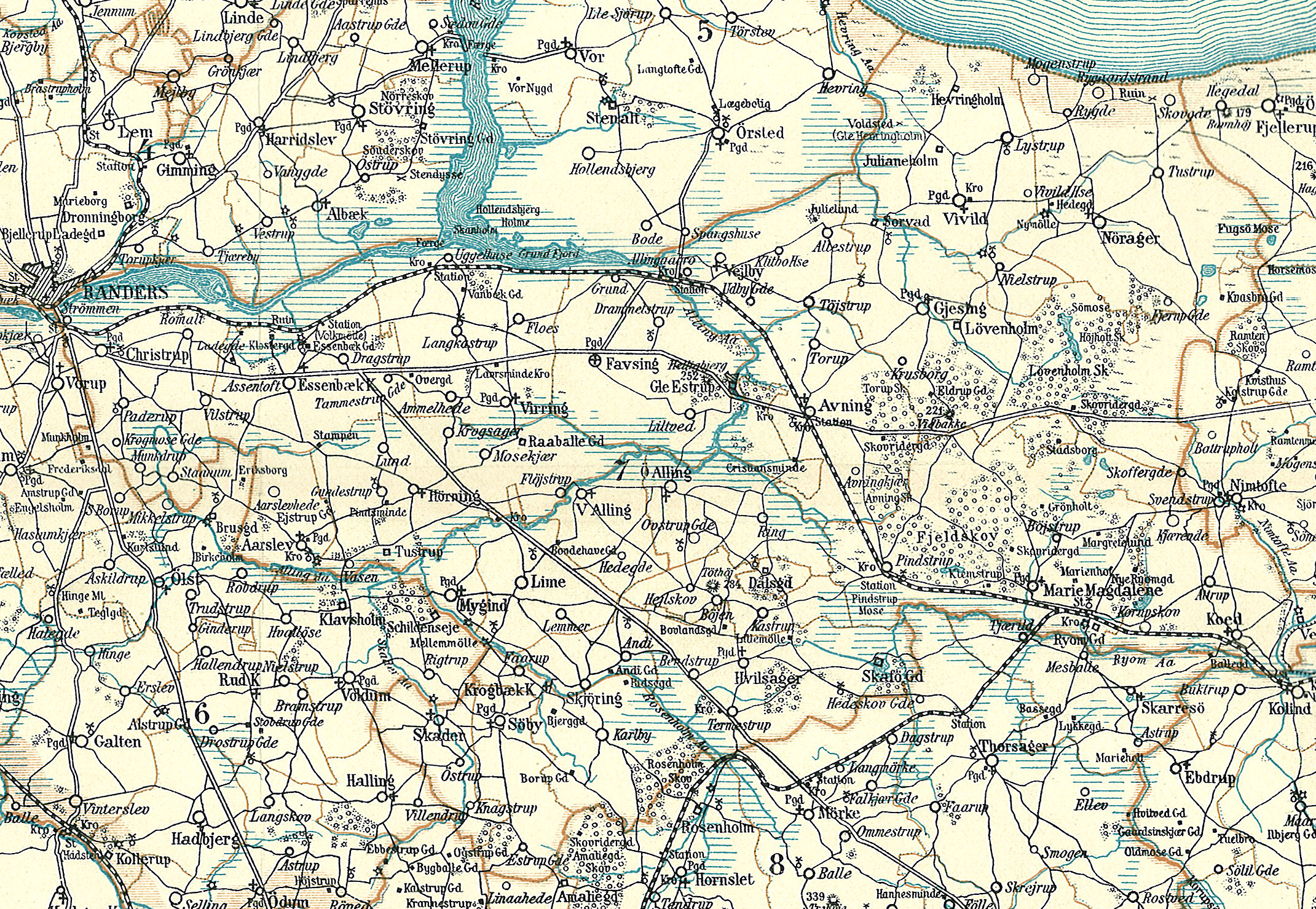 Map of Sønderhald Herred in Randers County in Denmark